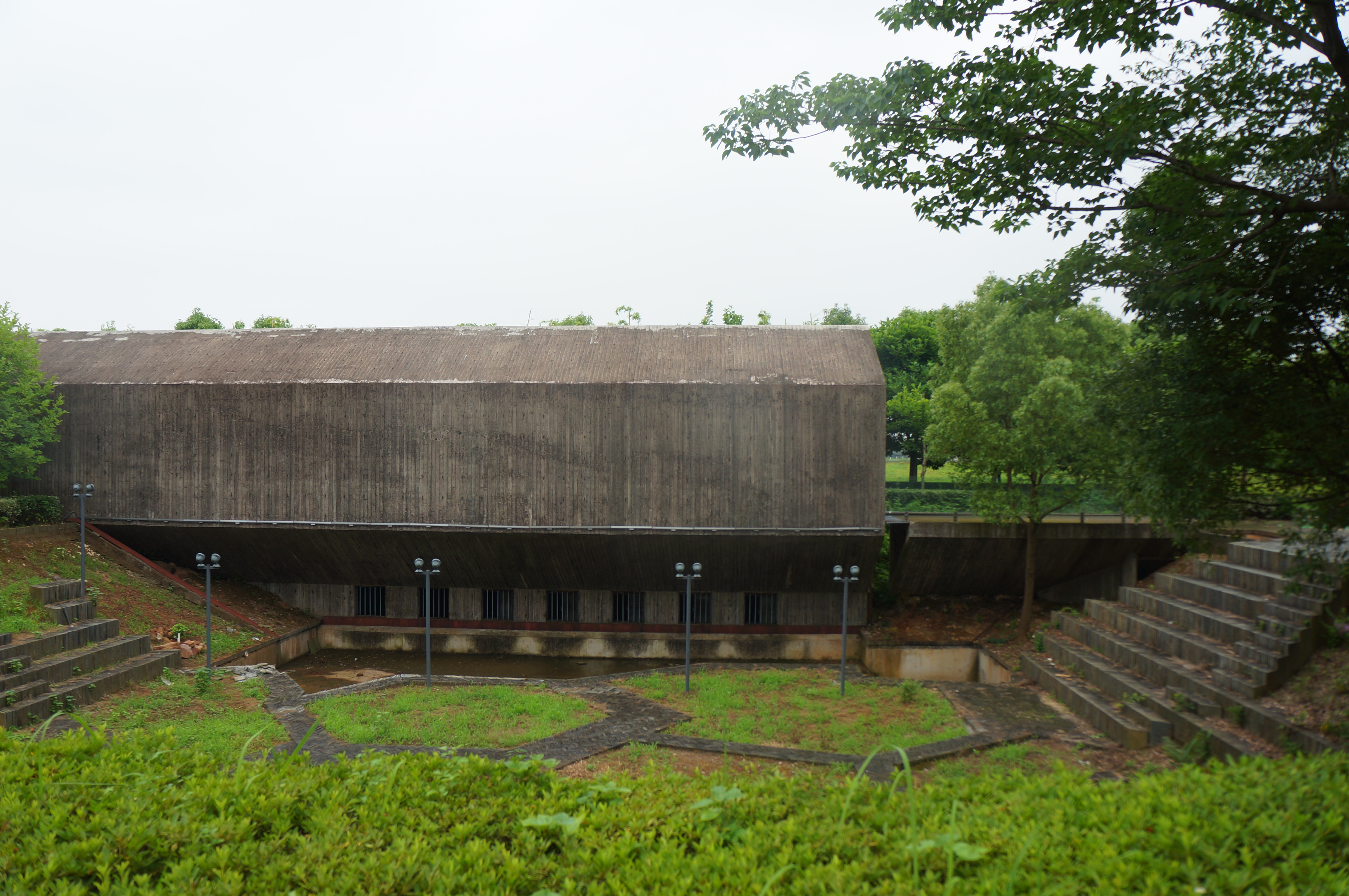 201805 Front View of the Archaeological Archives